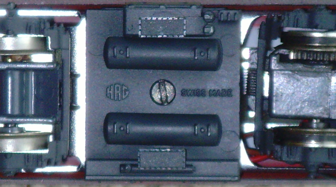 Underside of HAG loco showing Swiss Made label